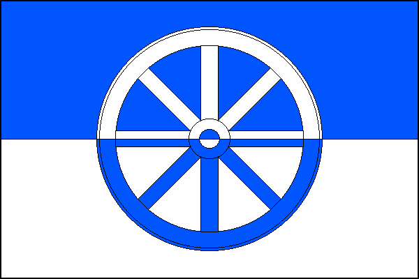 Municipal flag of Podolí village, Uherské Hradiště District, Czech Republic.